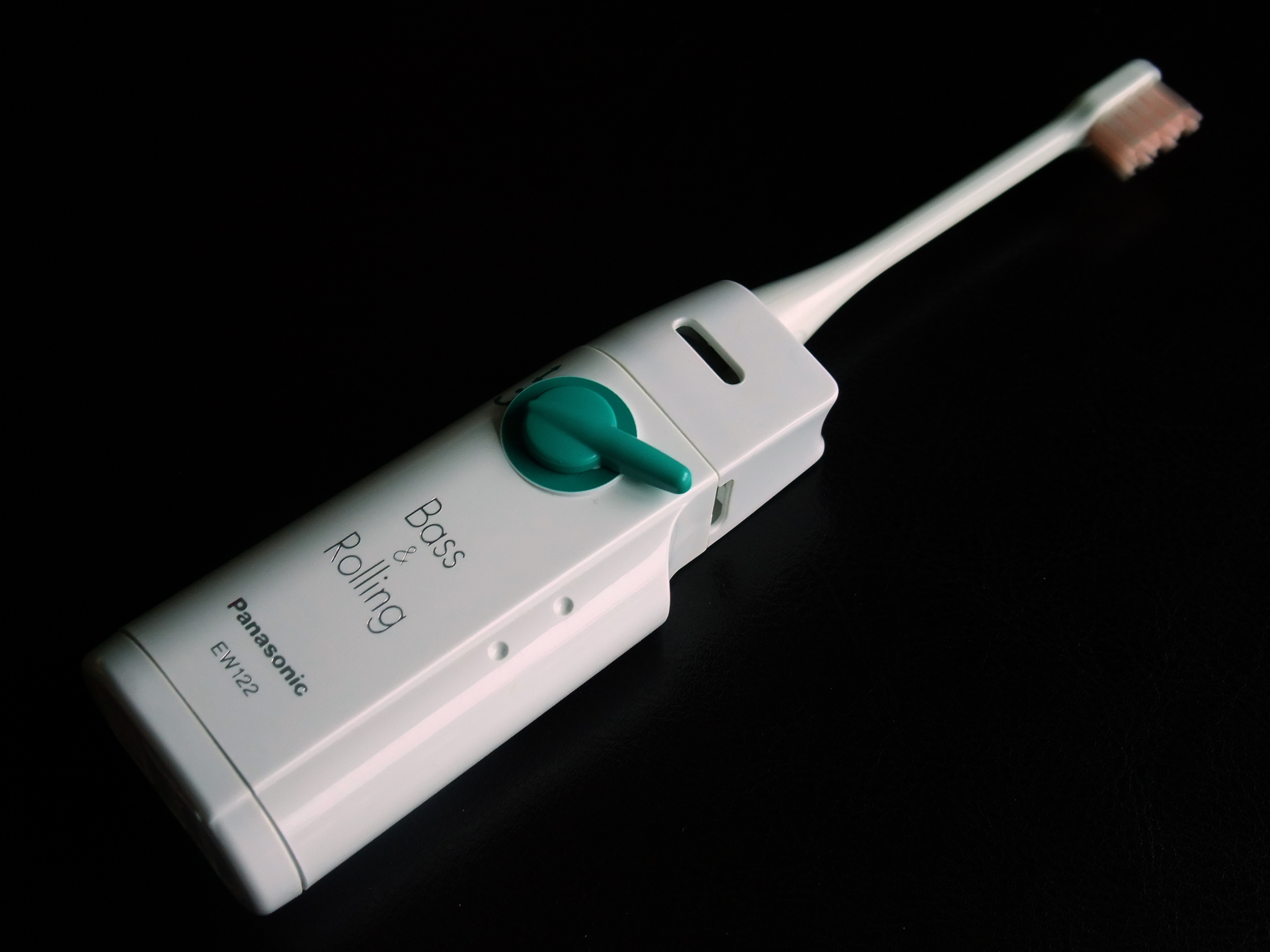 Panasonic EW122 Bass and Rolling electric toothbrush.